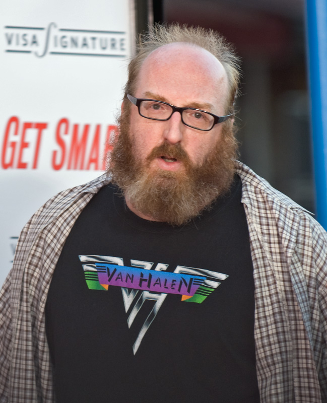 Brian Posehn at the Get Smart premiere, Fox Theater, Westwood, CA.